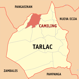 Map of Tarlac showing the location of Camiling